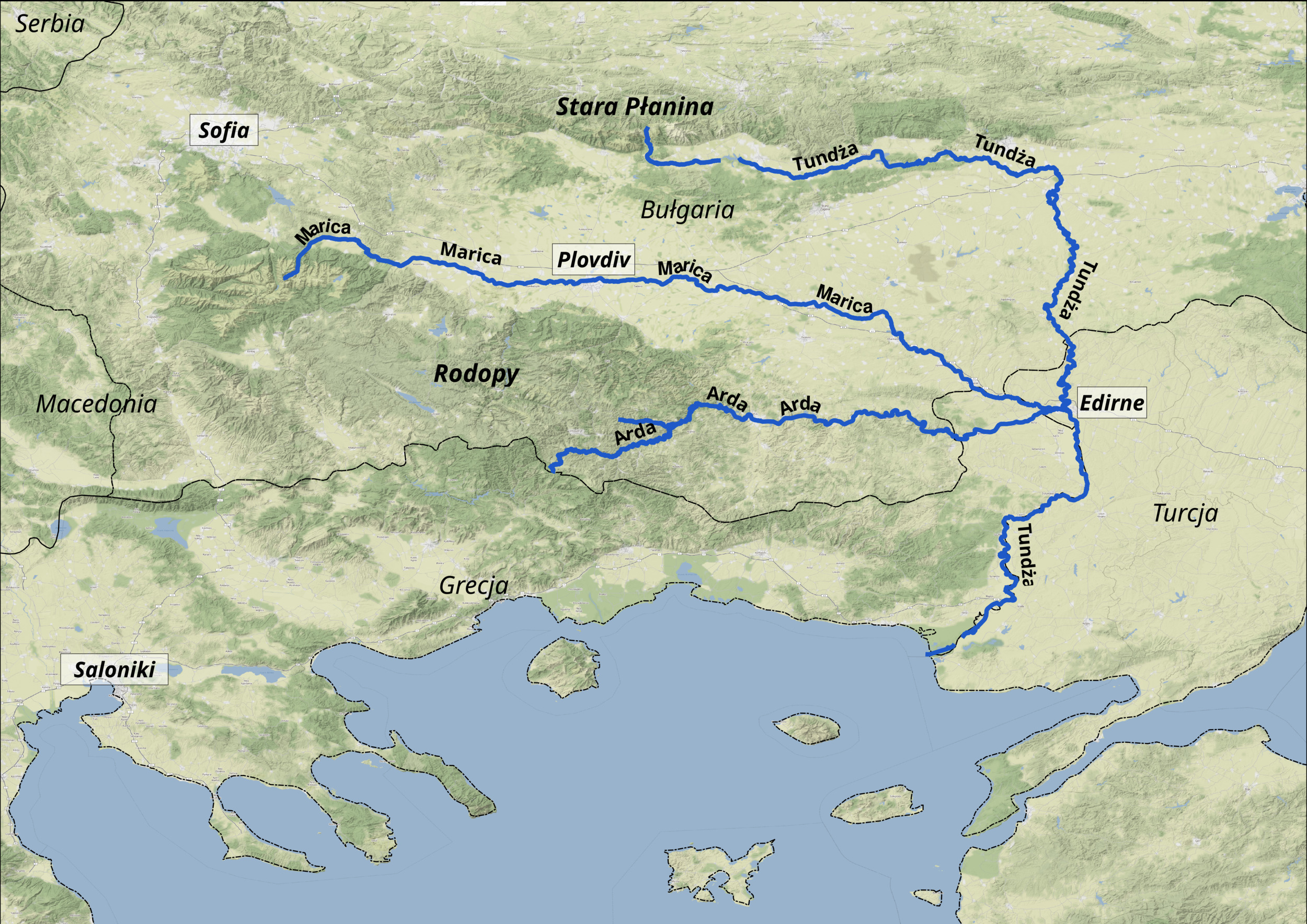 Three rivers of Thracian plain meeting in Edirne